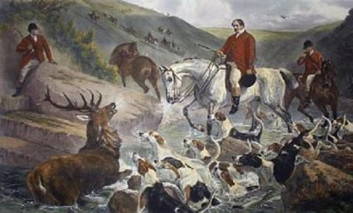 Mordaunt Fenwick-Bisset (1825-1884), Master of the Devon and Somerset Staghounds, painted by Samuel John Carter, exhibited at the Royal Academy of Arts in London in 1871, under the catalogue description: "A September evening, Exmoor Forest". A wild stag at bay with portraits; to be presented to the master of the Devon and Somerset Staghounds, Mordaunt Fenwick-Bisset Esq., at the beginning of his seventeenth season by upwards of 400 deer preservers and friends". The painting was presented to him at a dinner at Dunster on 14th September 1871. (Fortescue, Hon John, Record of Staghunting on Exmoor, London, 1887, p.50). He is shown on his hunter Chanticleer surrounded by his favourite hounds, with a stag at bay at Badgworthy Water, Exmoor Forest.